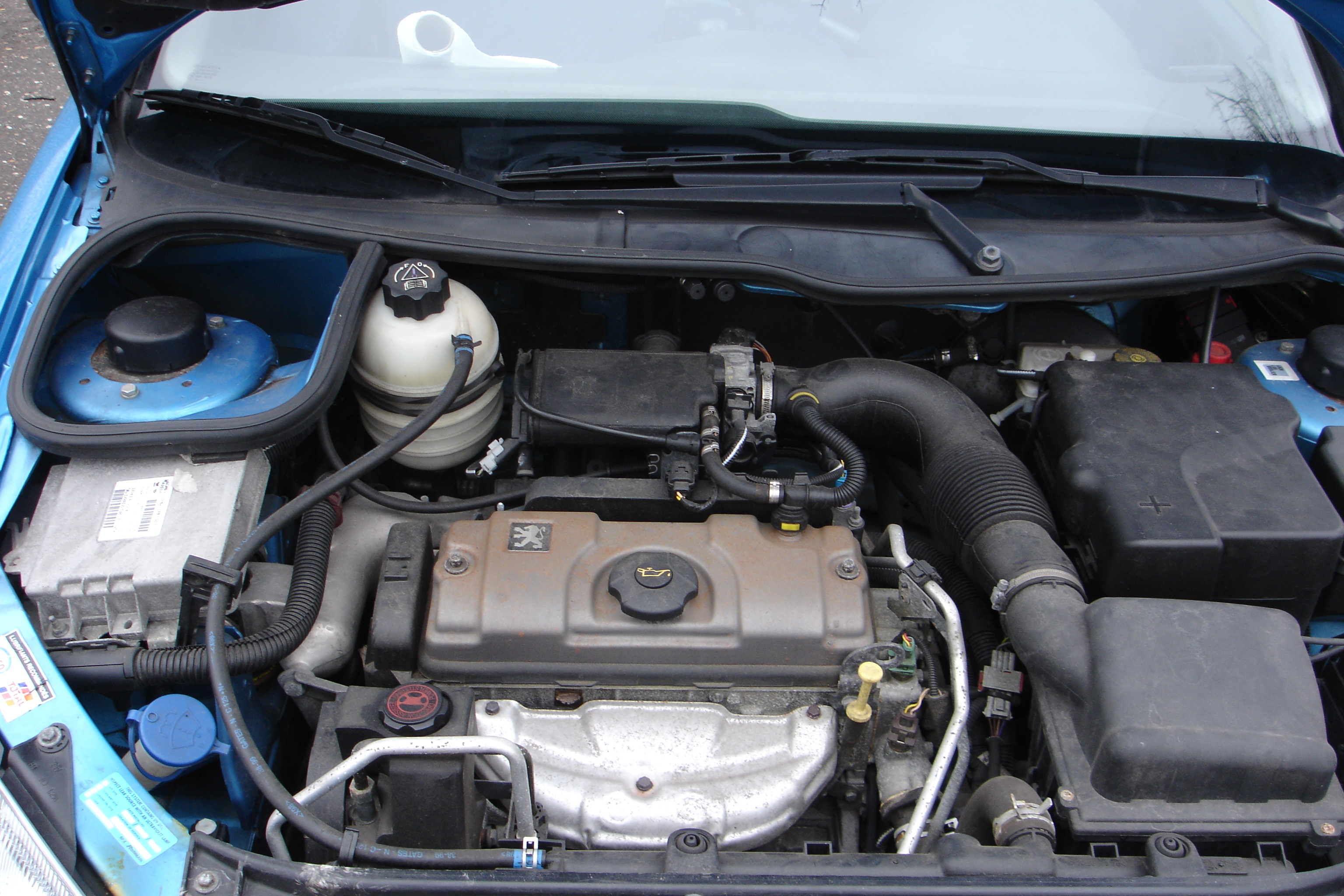 A 1999 3 door Peugeot 206 with a 1.1 L TU1JP petrol engine Kurdî: Peugeot 206 3 dirga sali 1999 ba 1.1 L TU1JP petrol mator